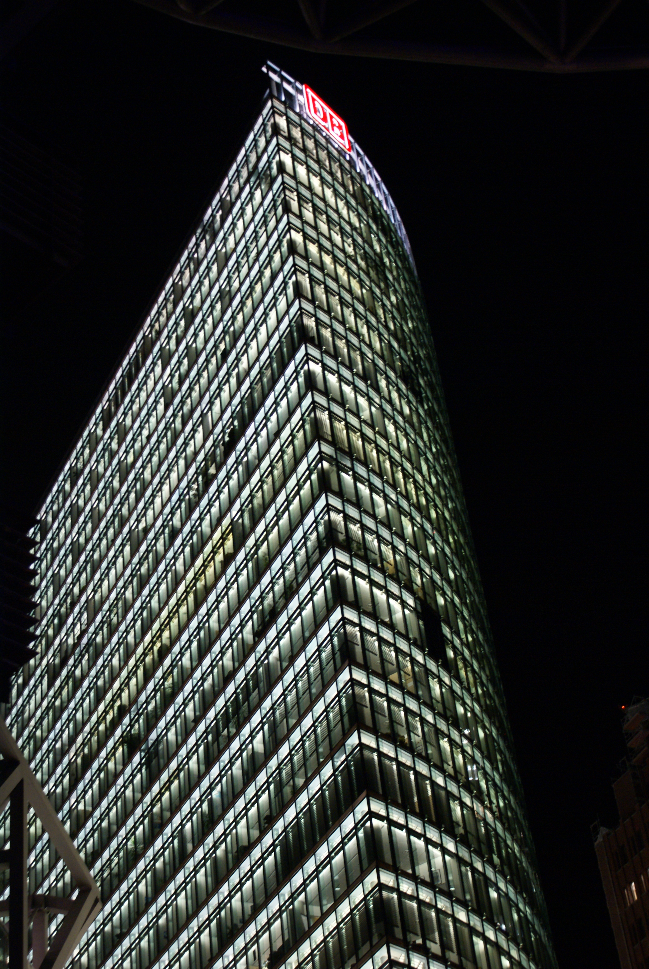 HQ of DB by night